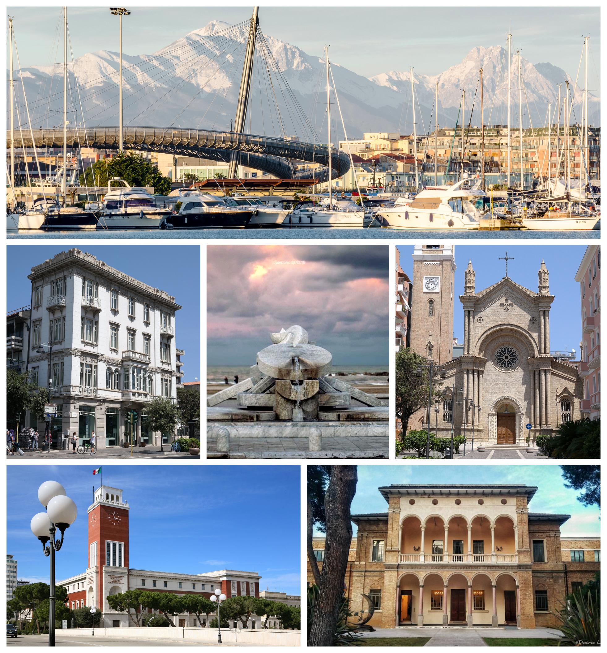 This is a montage of images already available on wiki commons.